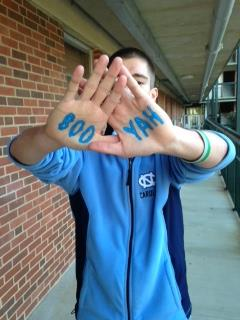 Boo Yah UNC Student for the Notre Dame vs UNC game January 5th in Remembrance of Stuart Scott